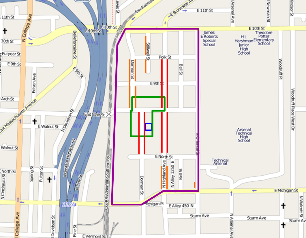 A map of the Cottage Home Historic District in Indianapolis, Indiana. The purple outline is the boundaries of the state and local districts. The green outline is the boundaries of the National Register district. The blue outline is the boundaries of the Ruskaup-Ratcliffe House and Store, which is excluded from the locally-designated Cottage Home Conservation District. The orange lines designate the locations of historic stone curbs. The red lines designate the locations of historic stone curbs and brick sidewalks.